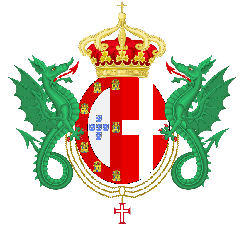 Coat of Arms of Queen consort Mary Pia of Portugal